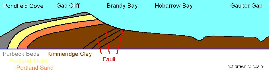 Geology of the coast line from Pondfield Cove to Gaulter Gap (Isle of Purbeck)